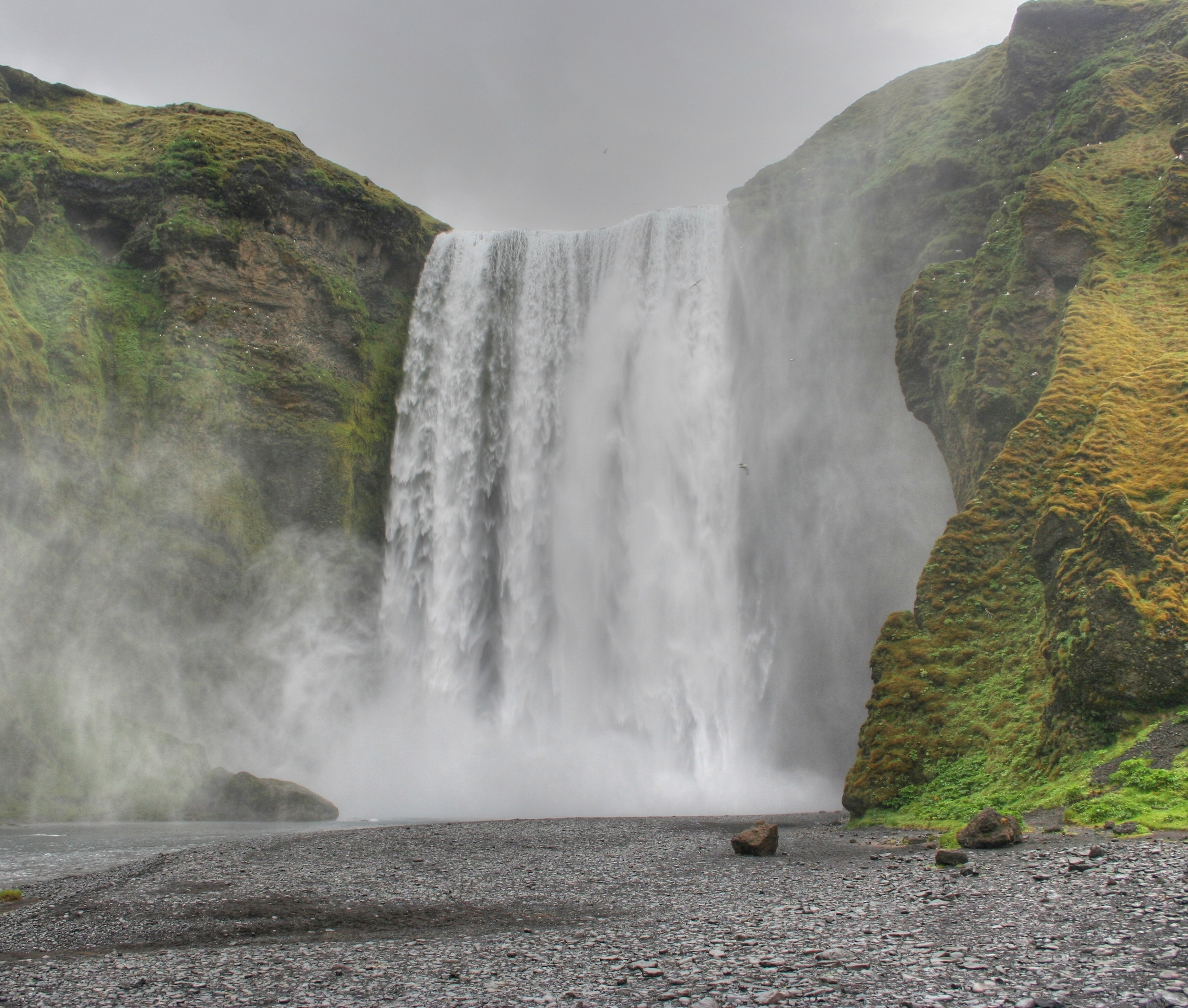 Skógafoss in 2006